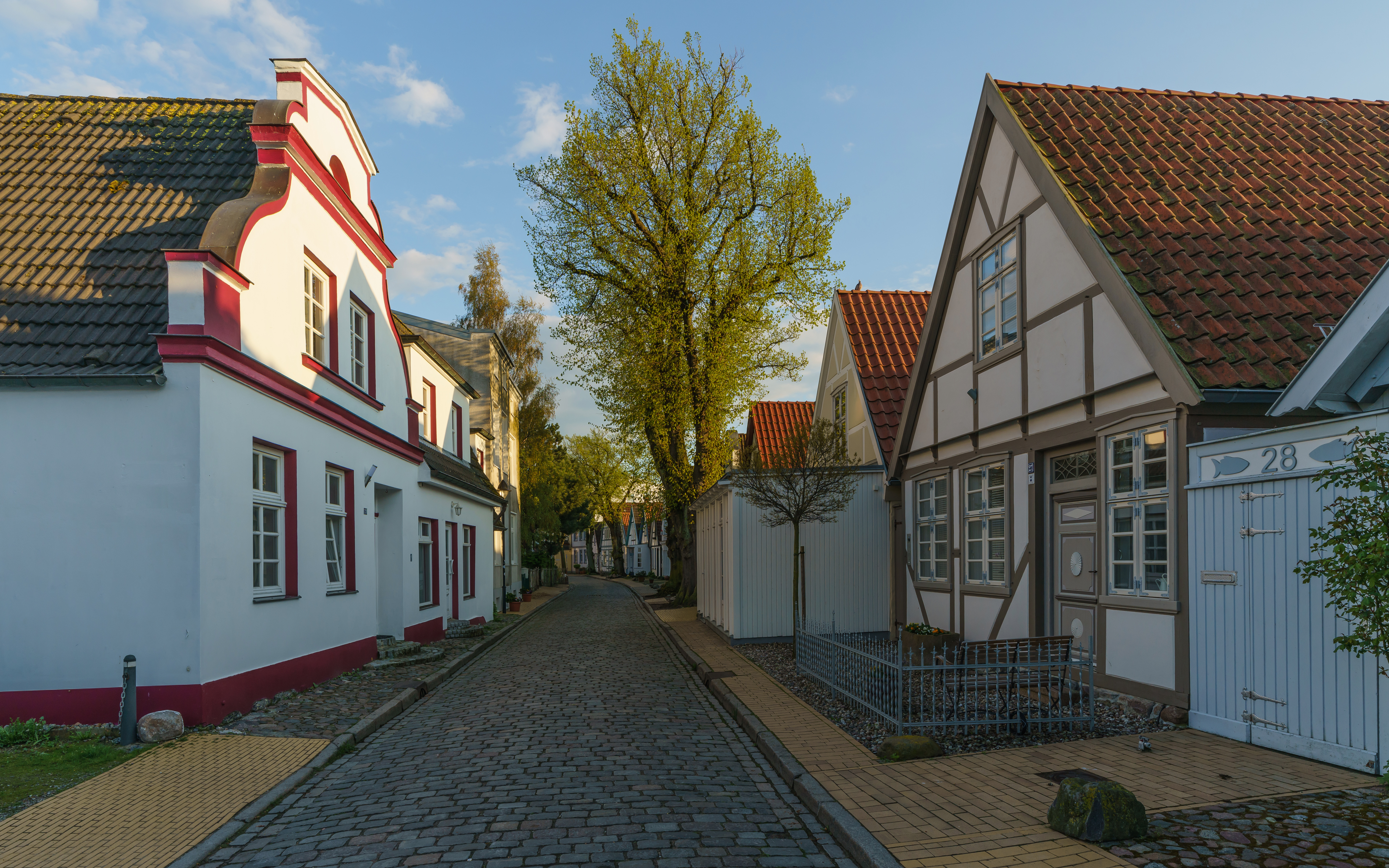 Alexandrinenstrasse in Warnemünde, Rostock, Germany